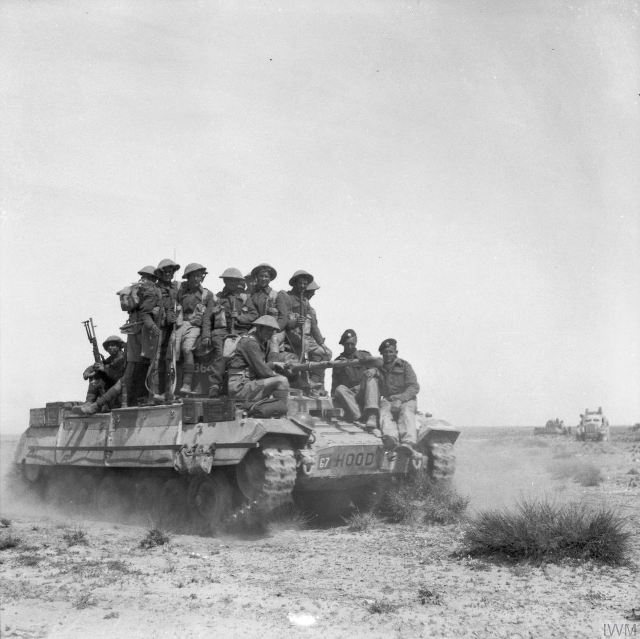 The British Army in Tunisia 1943 A Valentine tank carries infantry during an exercise, 12 March 1943.